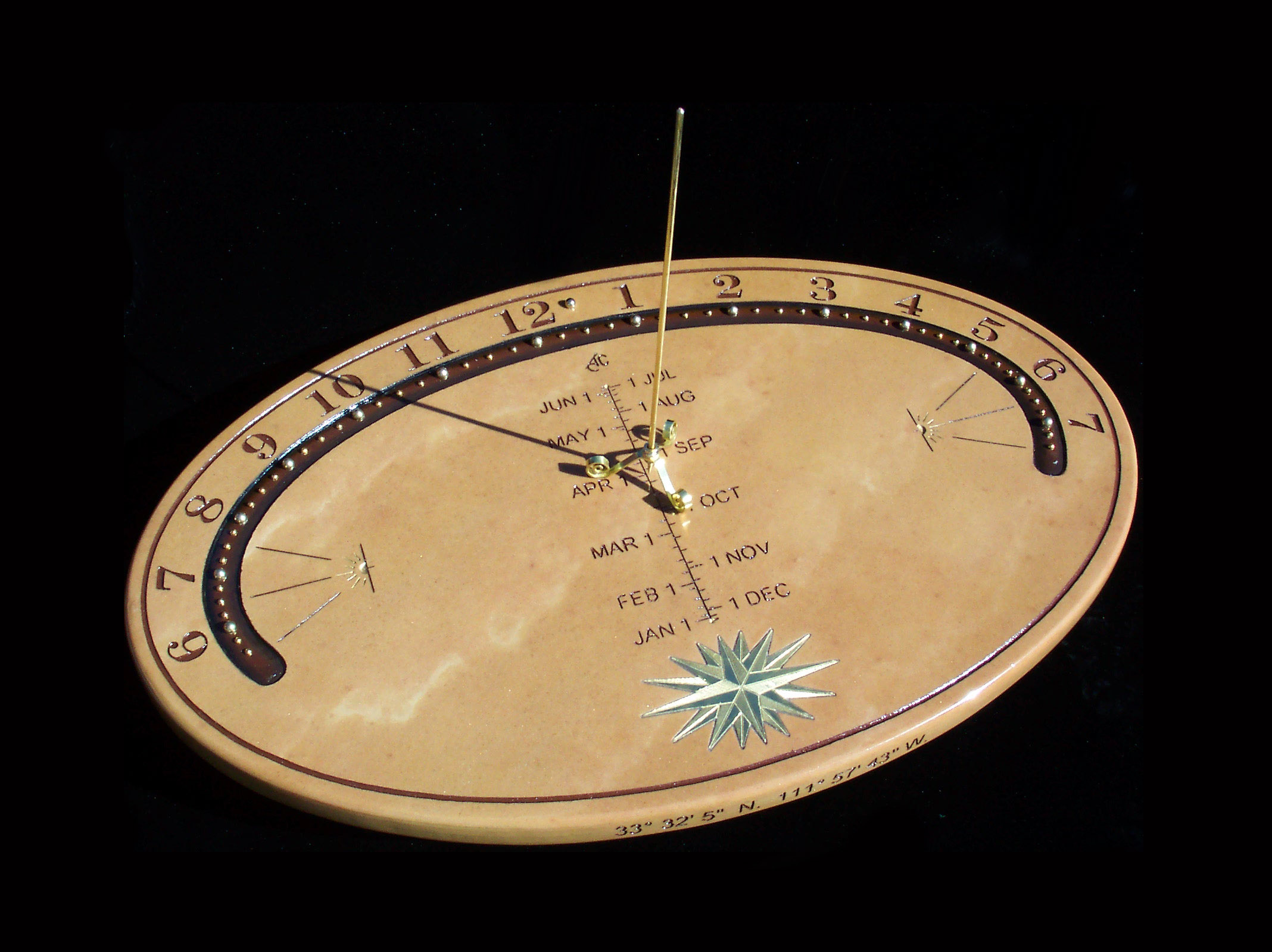 This is a hand-carved table-top analemmatic sundial by John Carmichael